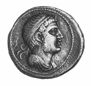 coin depicting numidian prince Vermina